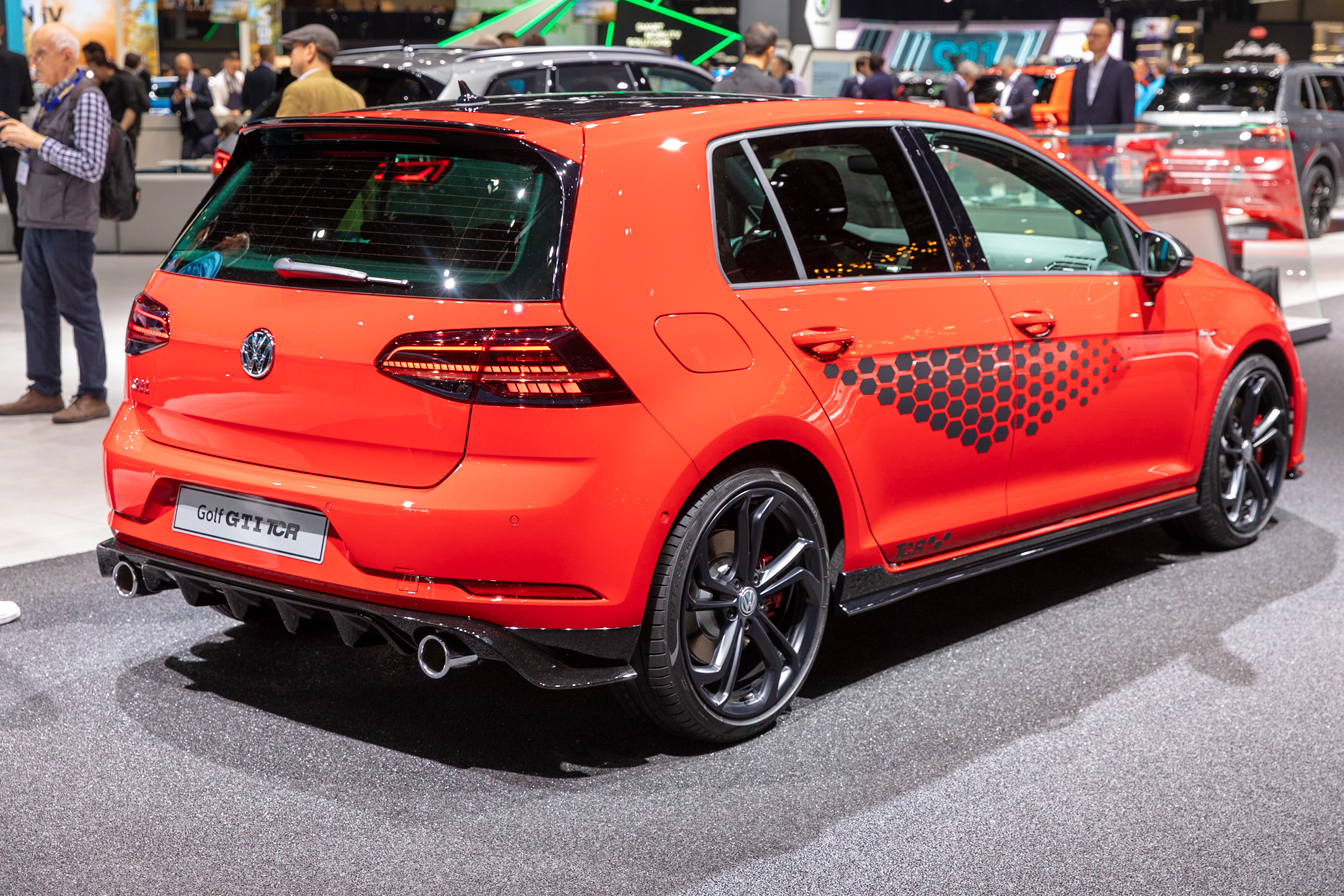 Geneva International Motor Show 2019, Le Grand-Saconnex